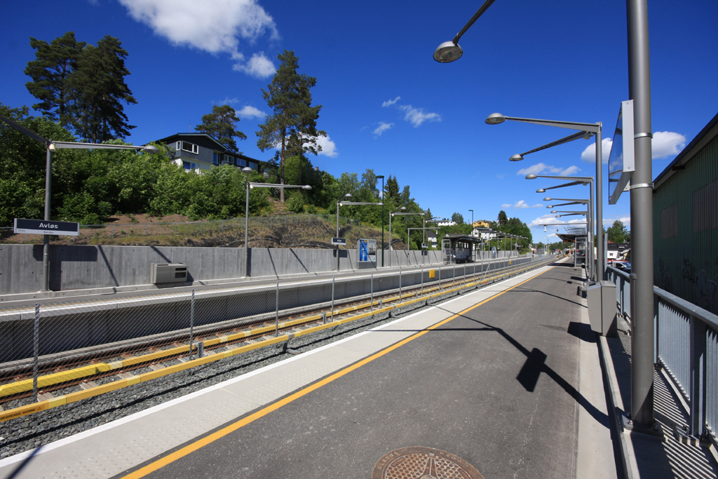 Avløs Metrostation. Seen from the eastbound track 1. Facing towards Haslum.